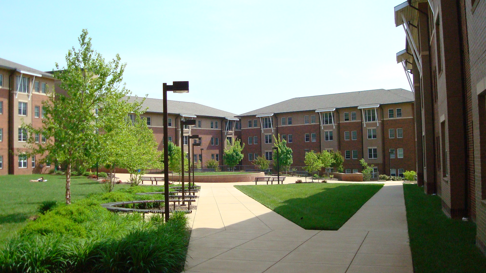 Liberty Square GMU